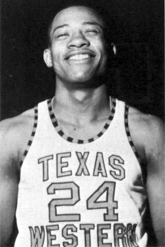 American basketball player Willie Worsley Of the UTEP Miners from the 1966 “Flowsheet” student yearbook.